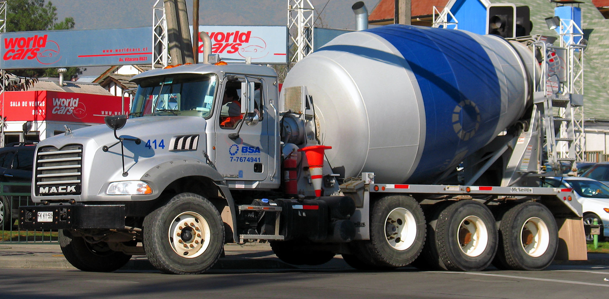 Mack GU 813 Granite 8x4 2013